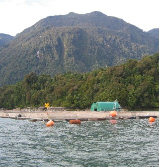 Aquaculture installation in Palena